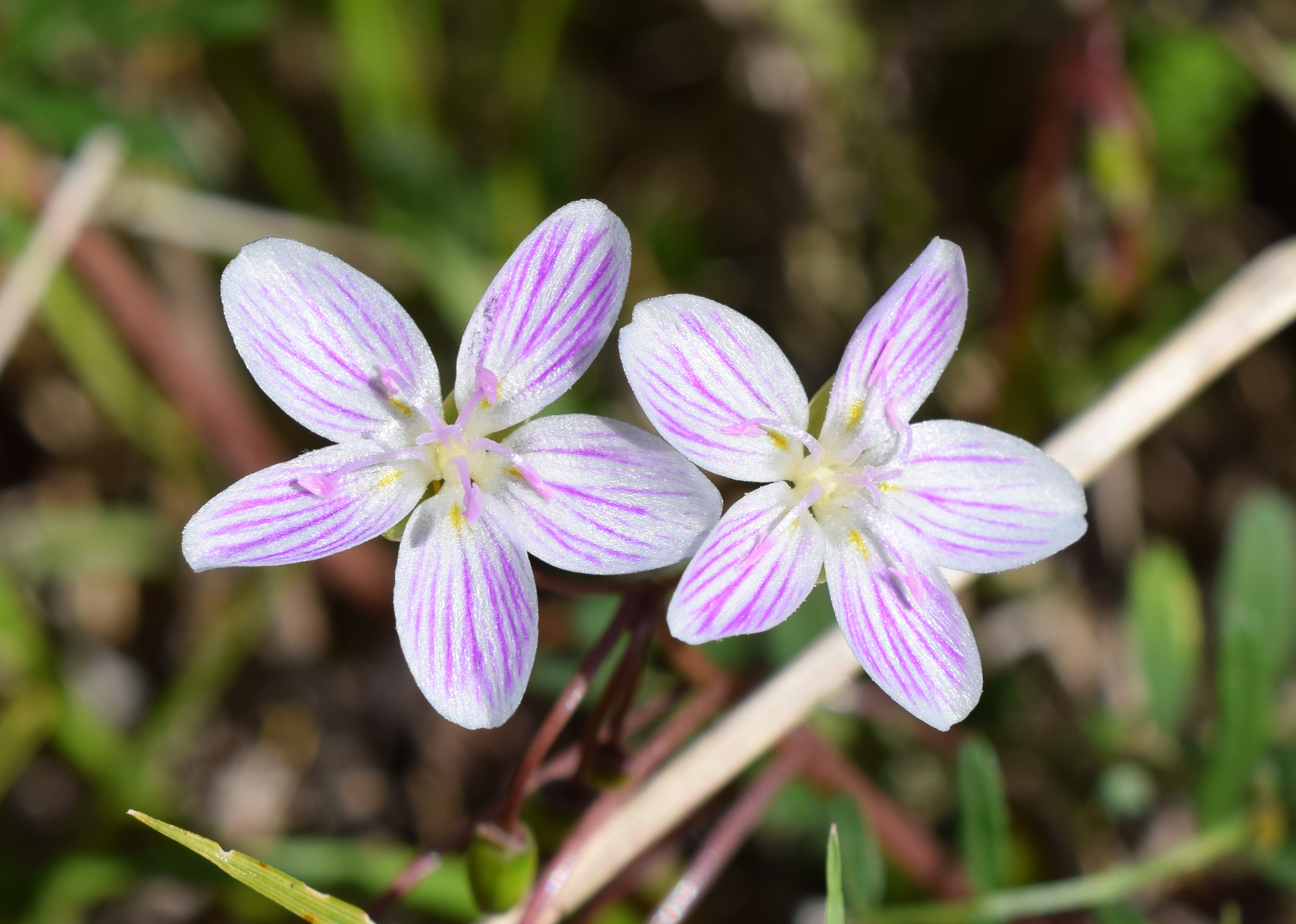 Claytonia virginica (Virginia springbeauty) flowering in a field at the University of Mississippi Field Station in April 2016.